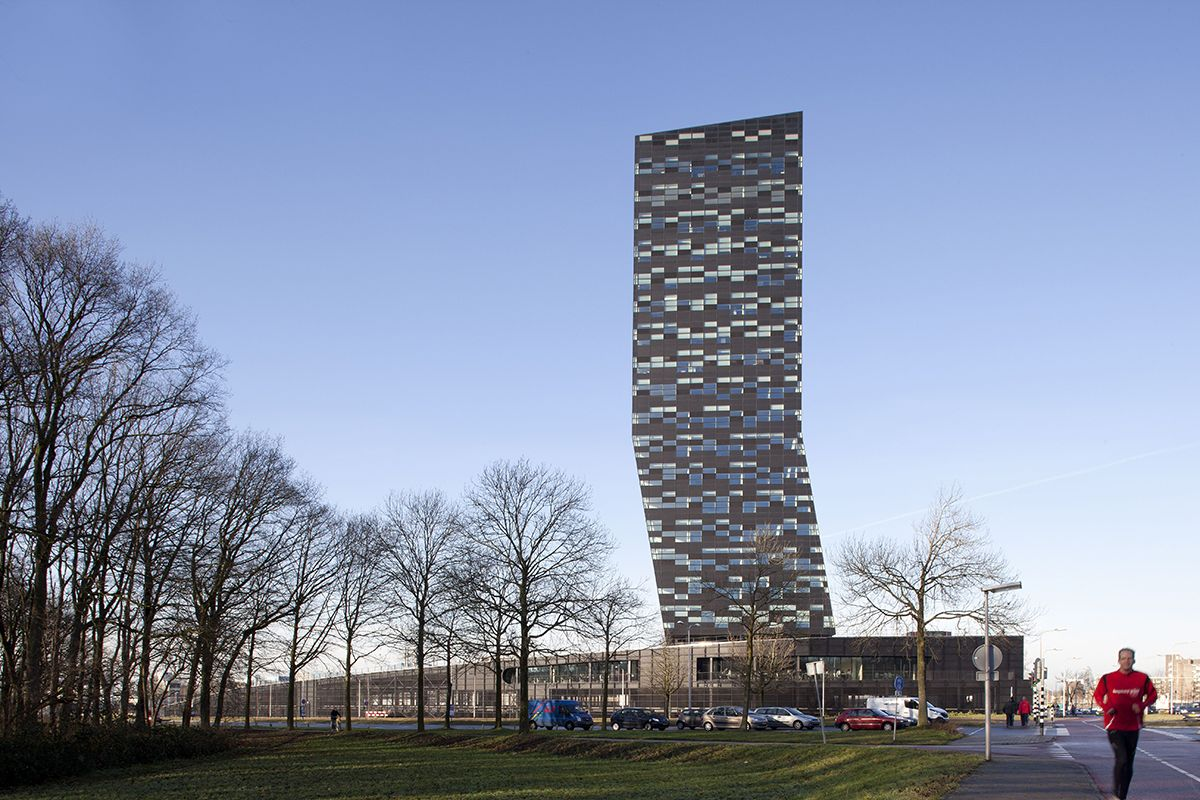 Facade